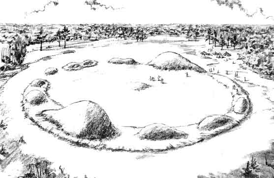 artist's impression of the archaeological site Watson Brake, Louisiana, USA, view from south